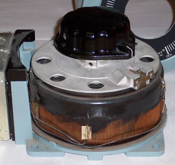 Photograph of a variable autotransformer (variac).